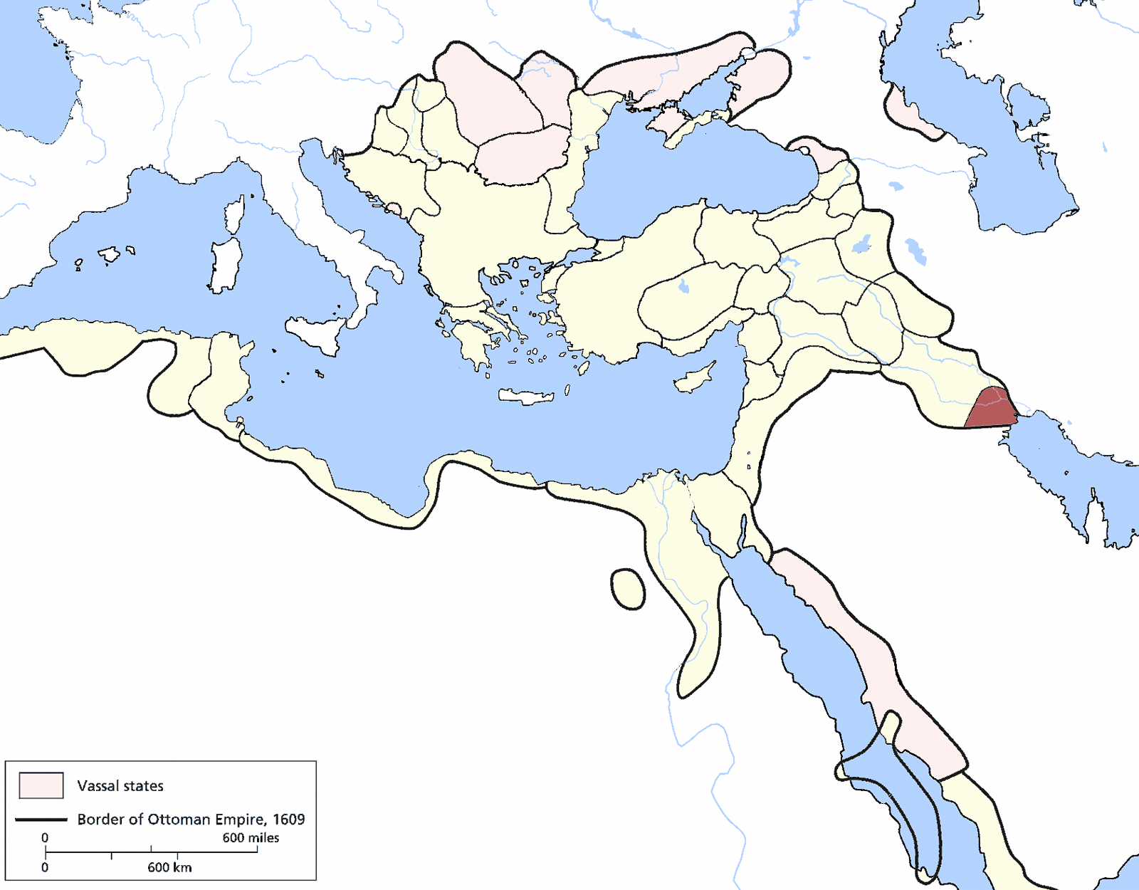 Basra Eyalet, Ottoman Empire (1609). Source: Encyclopedia of the Ottoman Empire at Google Books By Gábor Ágoston, Bruce Alan Masters